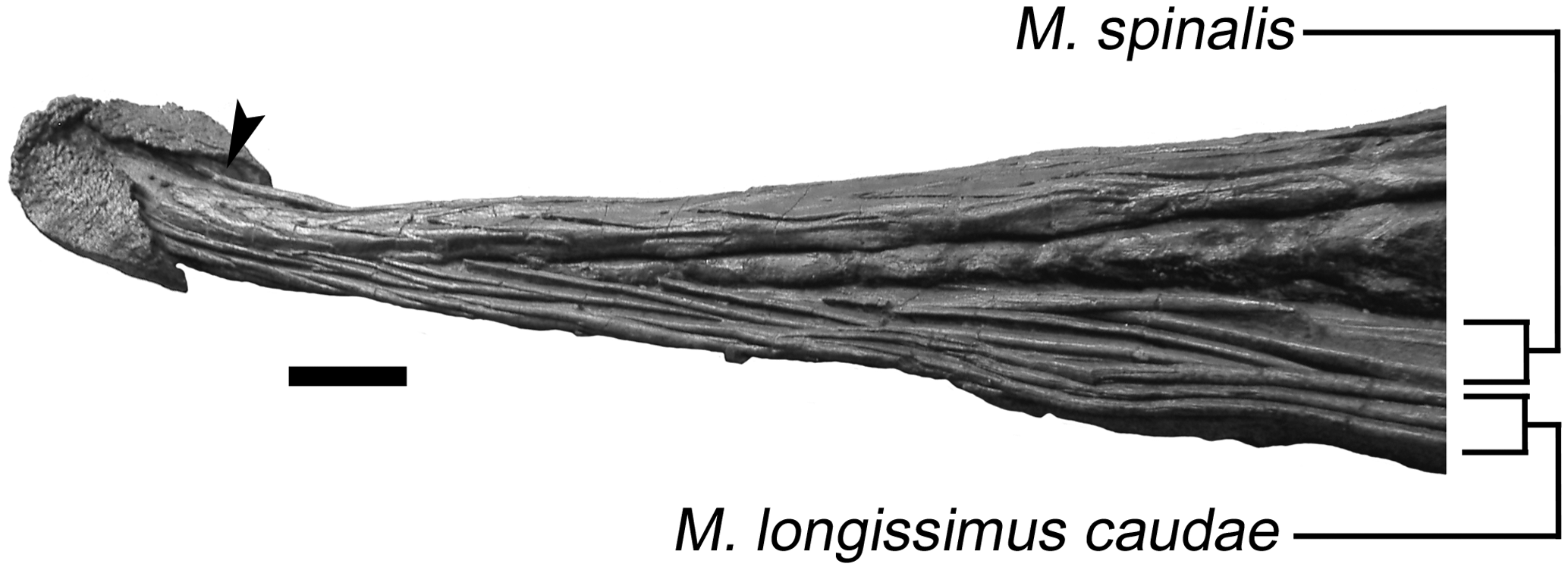 Ossified tendons in ROM 784 (Dyoplosaurus acutosquameus), oblique right lateral view. M. spinalis is represented by the inner set of imbricated tendons, and M. longissimus caudae is represented by the outer set of parallel to braided tendons. The ossified tendons continue underneath the knob osteoderms (arrowhead). Scale bar equals 10 cm.